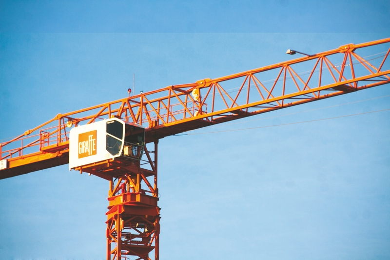 TDK-10.215